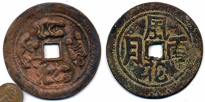 An image of Chinese numismatic charms and amulets provided by Scott Semans.